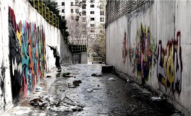 Picture Scenes of Writing on the City , Documentary film by Keywan Karimi, taken in Sadat Abad, Tehran, Iran